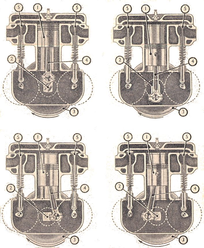 Movements of working parts of a four-stroke single-cylinder engine (Manual of Driving and Maintenance).jpg